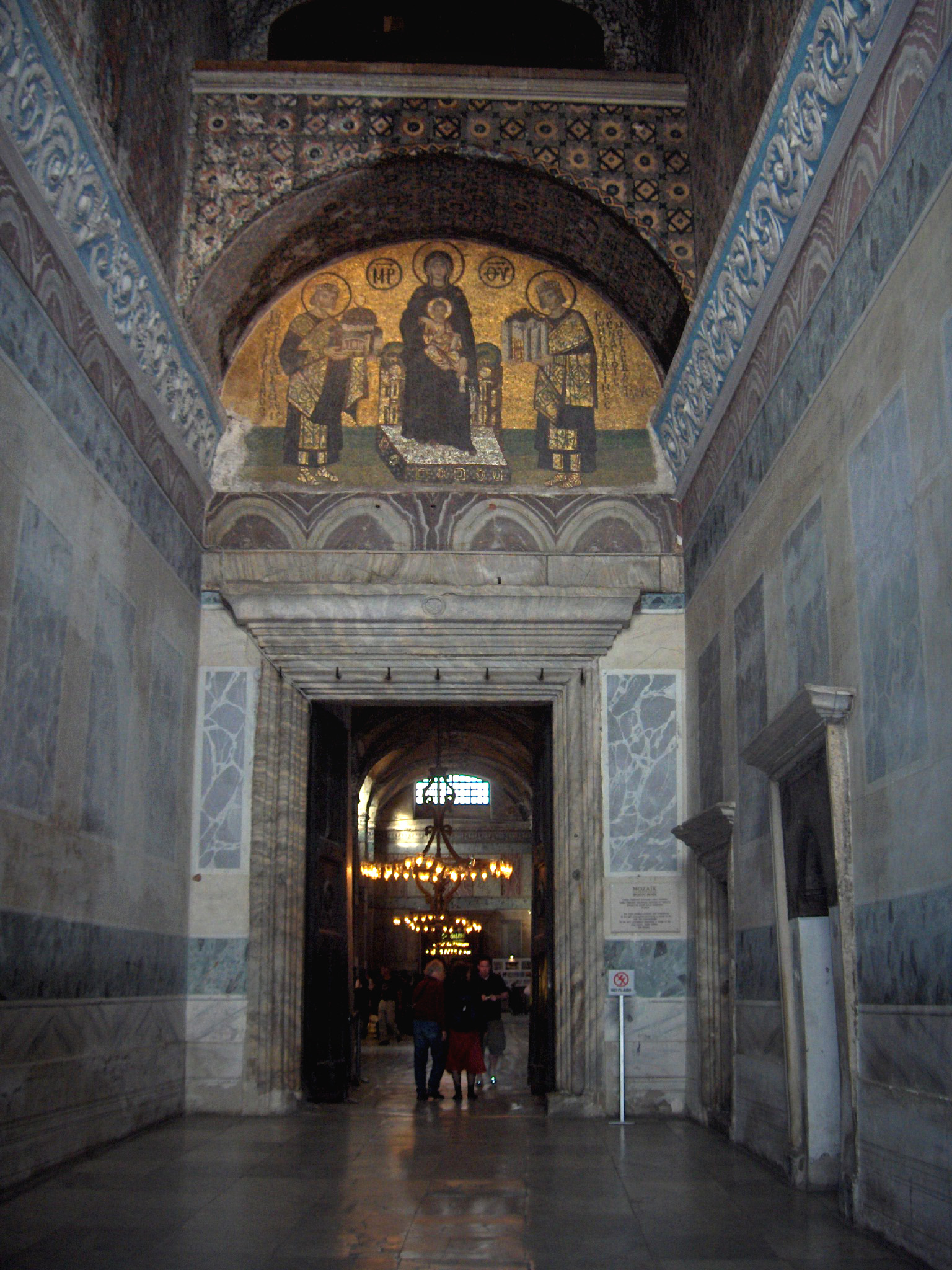 Hagia Sophia ; mosaic over the door of the western vestibule; Istanbul, Turkey